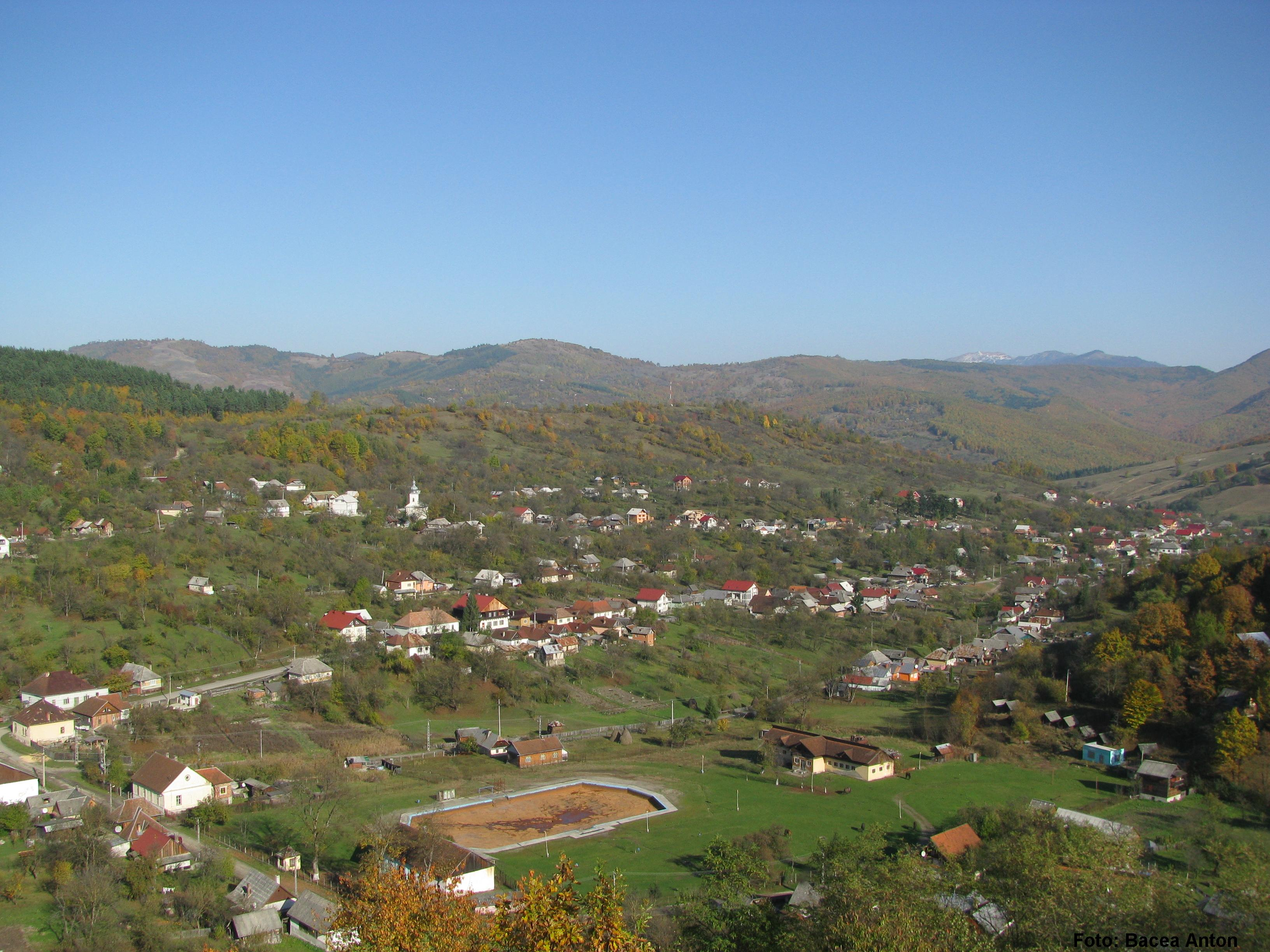 Coştiui, Maramureş, Romania